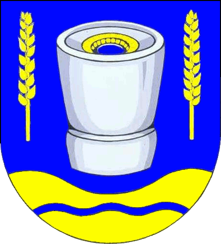 Coat of arms of the municipality Tolk in Schleswig-Holstein, Germany.